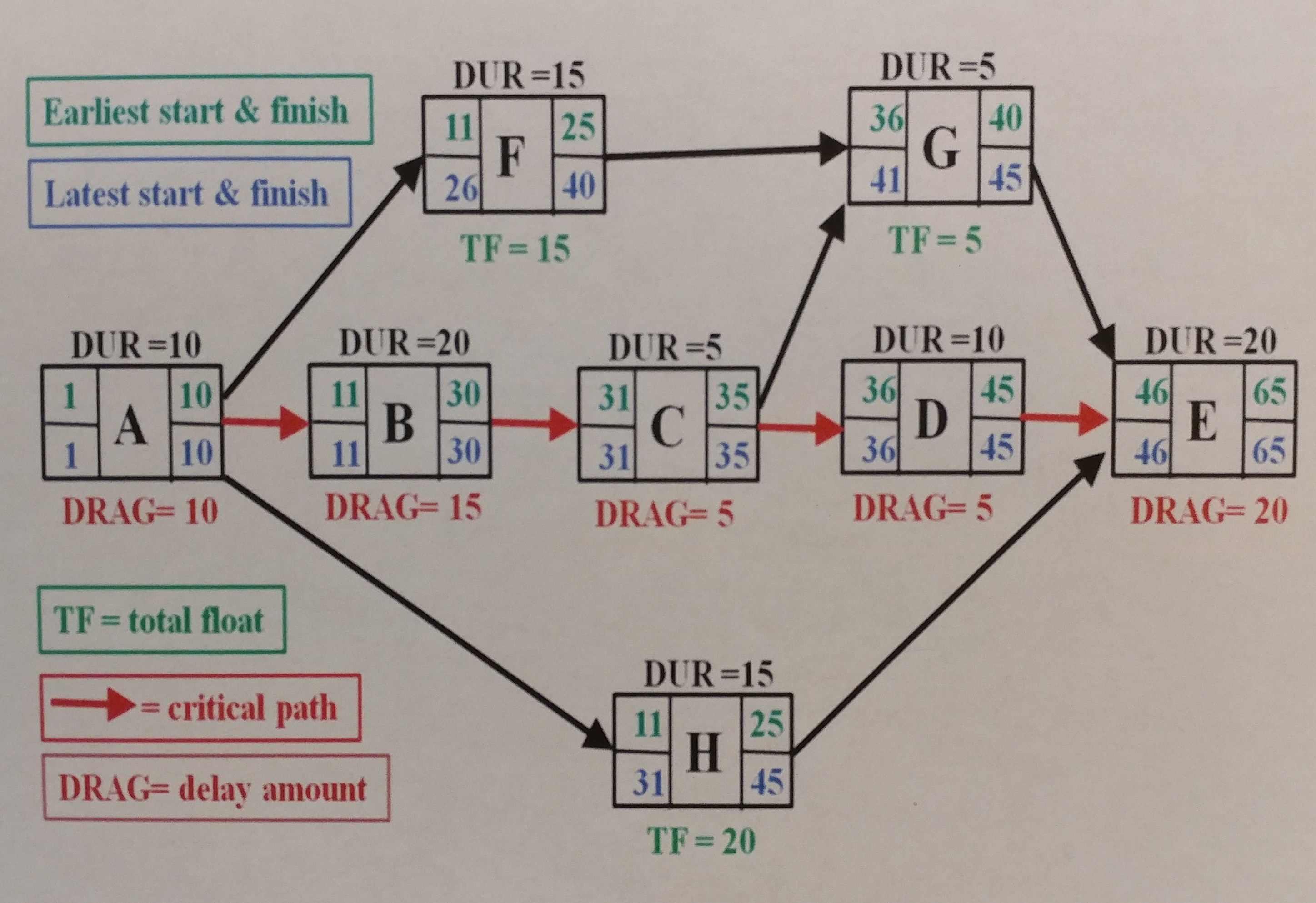 The original diagram incorrectly depicted the Early Finish and Late Start of activity C as being 36. The correct value for both is 35.